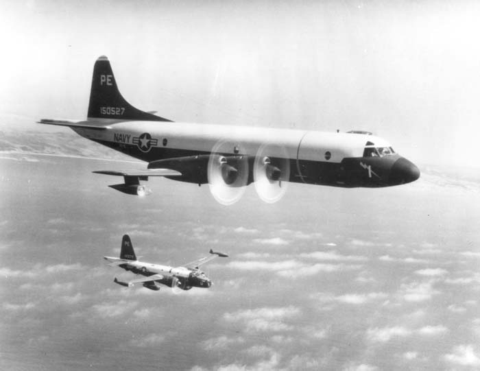 VP-19 P-3A (PE 1, BuNo 150527) and P-2V (PE 12, BuNo 143172) in-flight. Repository: San Diego Air and Space Museum Archive